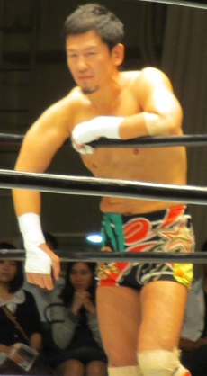 Japanese professional wrestler, Koji Kanemoto. Sep 23 2014, BJW Korakuen Hall.